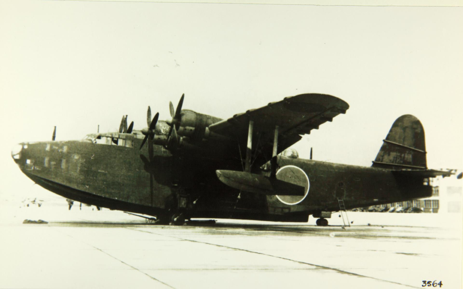 Catalog #: 01_00081863 Title: Kawanishi, H8K, Emily Corporation Name: Kawanishi Official Nickname: Emily Additional Information: Japan Designation: H8K Tags: Kawanishi, H8K, Emily Repository: San Diego Air and Space Museum Archive